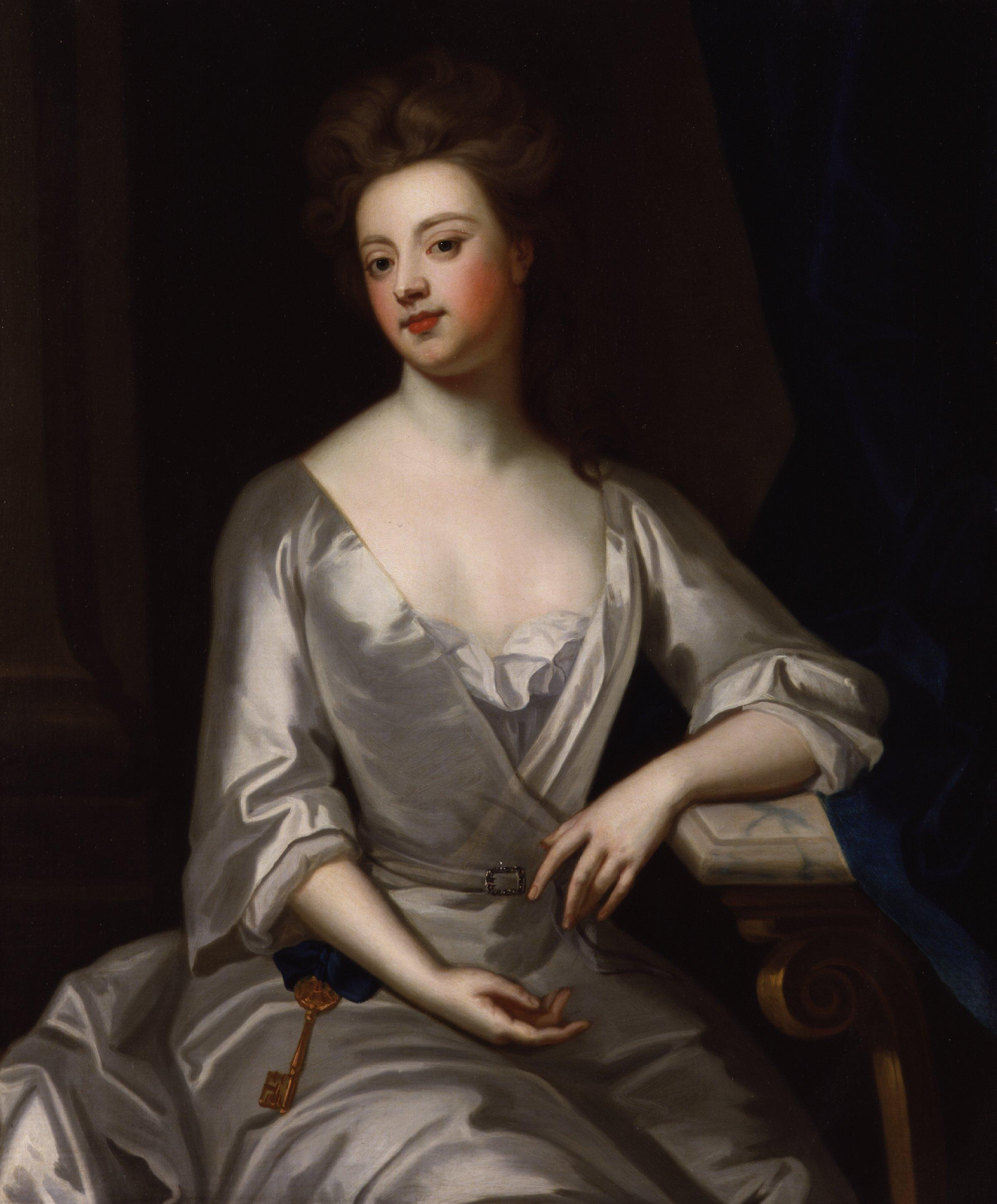 Sarah Churchill, Duchess of Marlborough, by Sir Godfrey Kneller, Bt (died 1723). All images in this batch have been confirmed as author died before 1939 according to the official death date listed by the NPG.